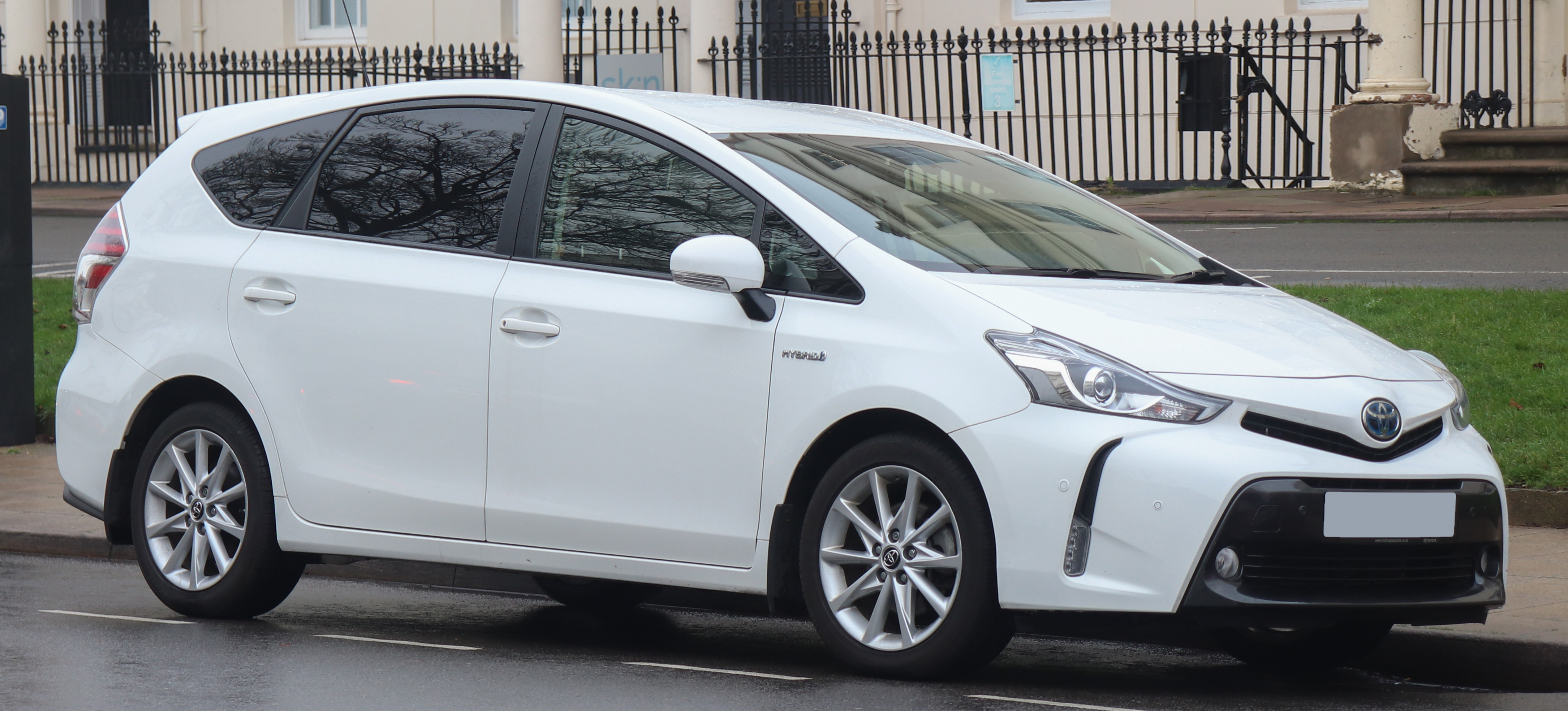 2017 Toyota Prius+ Excel + CVT 1.8 Front Taken in Leamington Spa